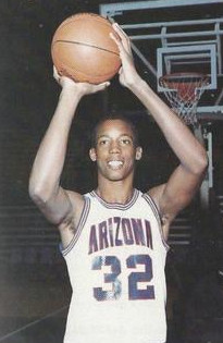 Basketball player Sean Elliott with the Arizona Wildcats.